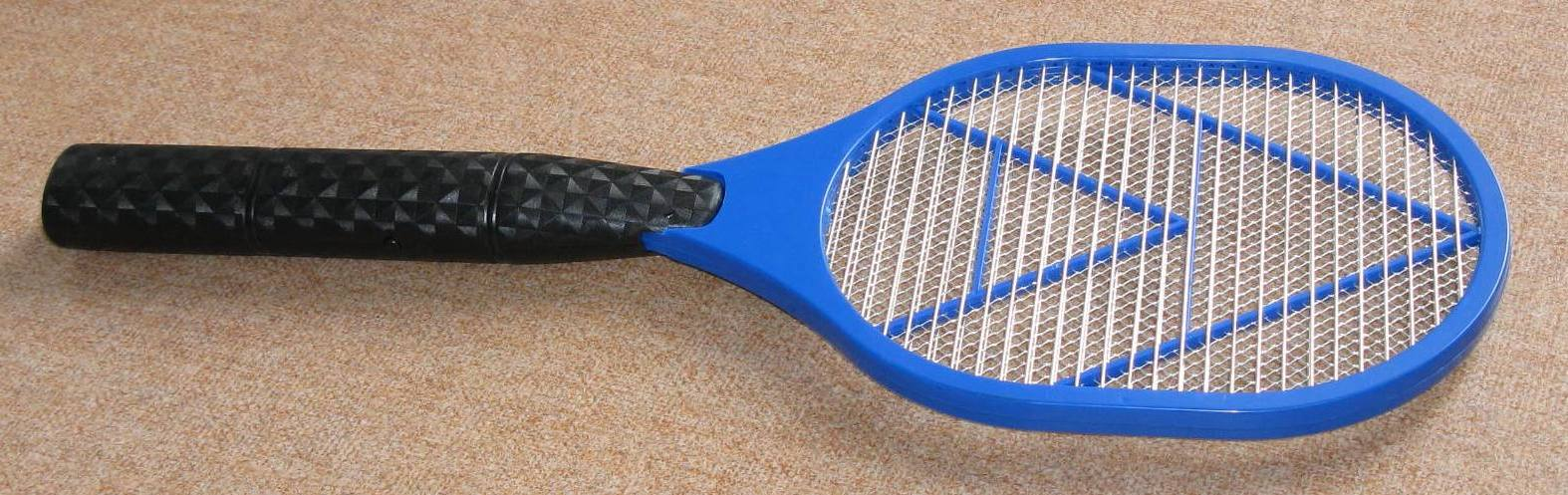 electric flywatter